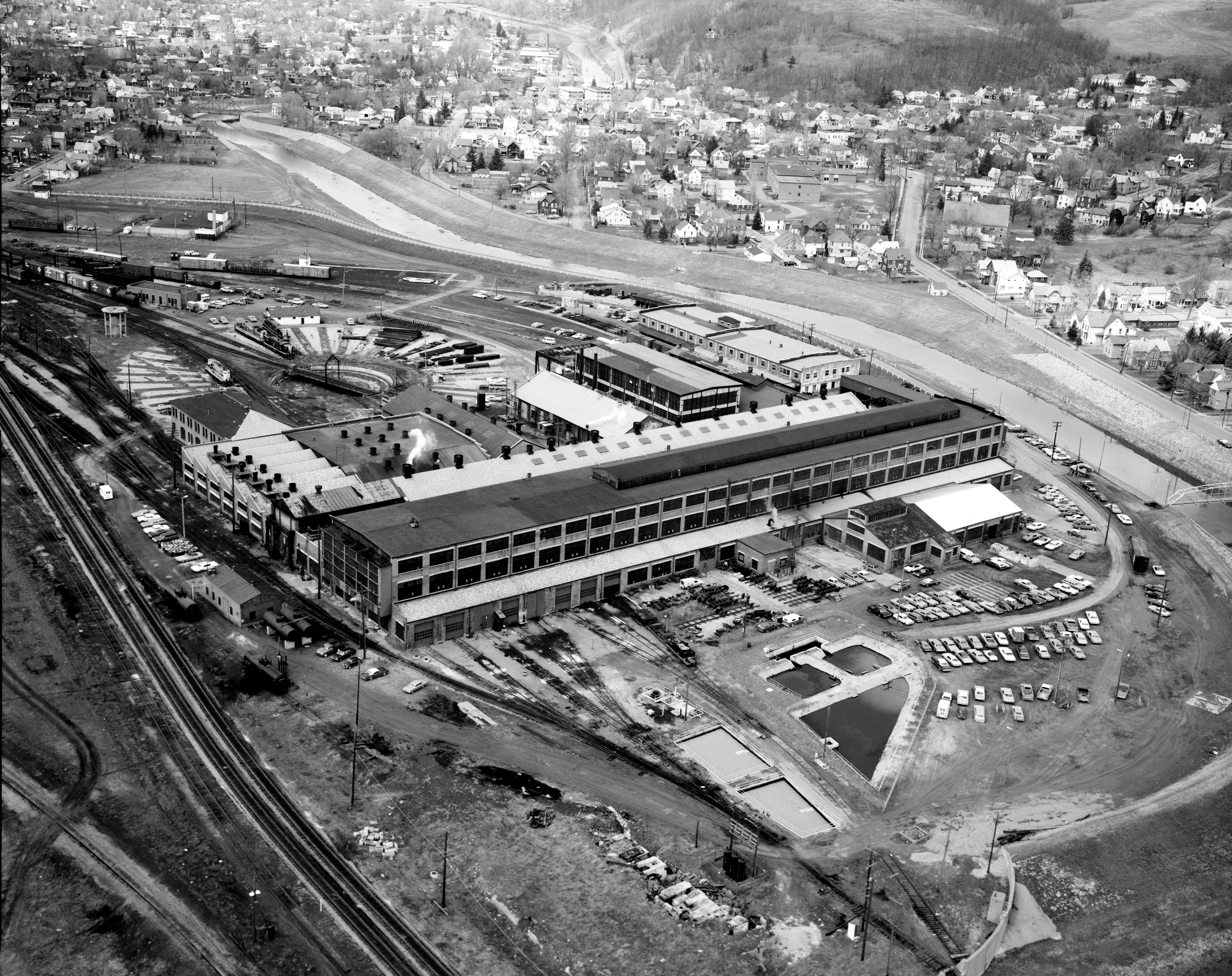 Erie Railway: Hornell Erecting Shop West Bank of Canisteo River, NE of Cedar Street Hornell, Steuben County, New York. View is taken looking sputh from central Hornell (not seen), towards Canisteo. Note the rotating train turntable.